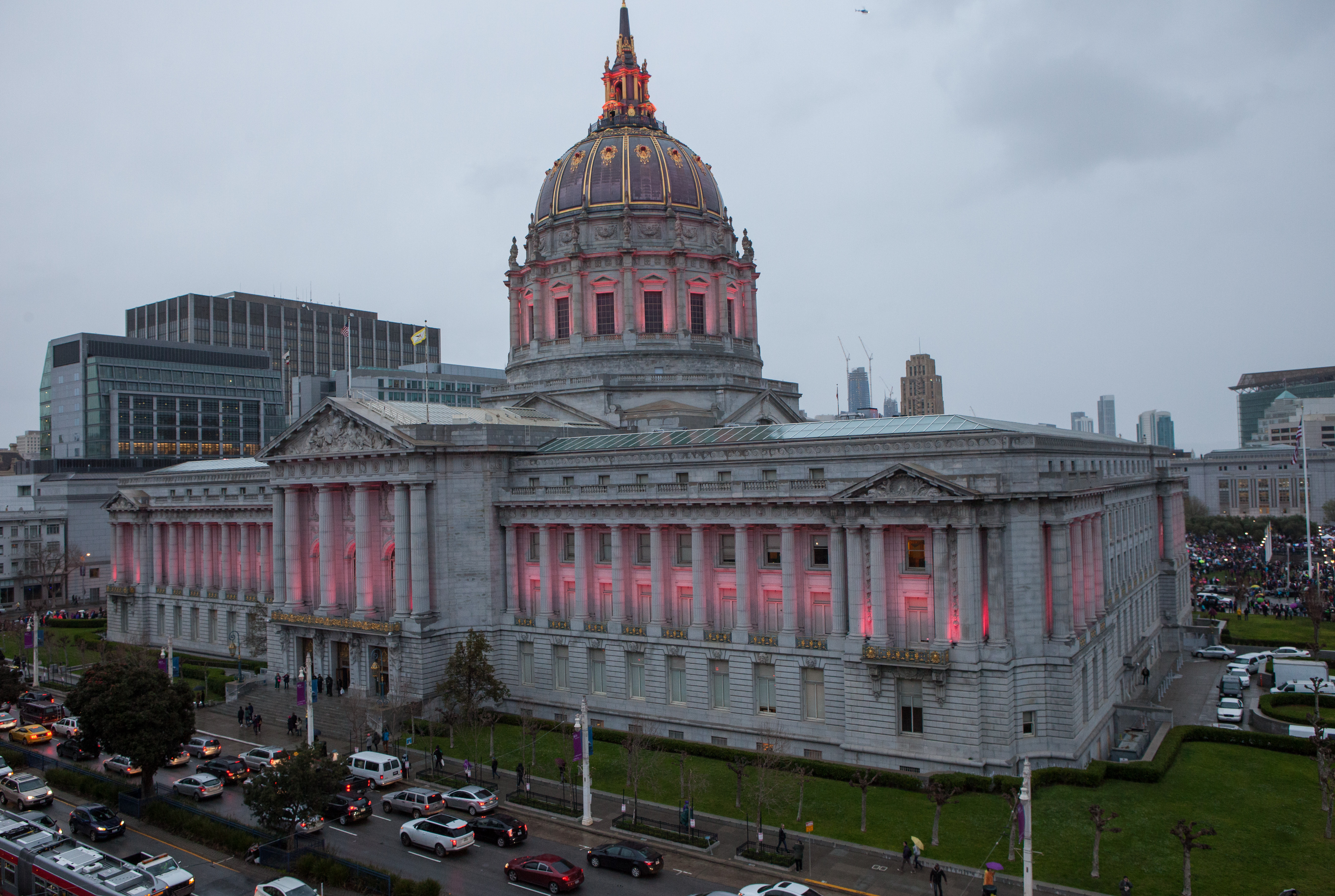 San Francisco City Hall at dusk, lit in pink for the San Francisco Women's March.